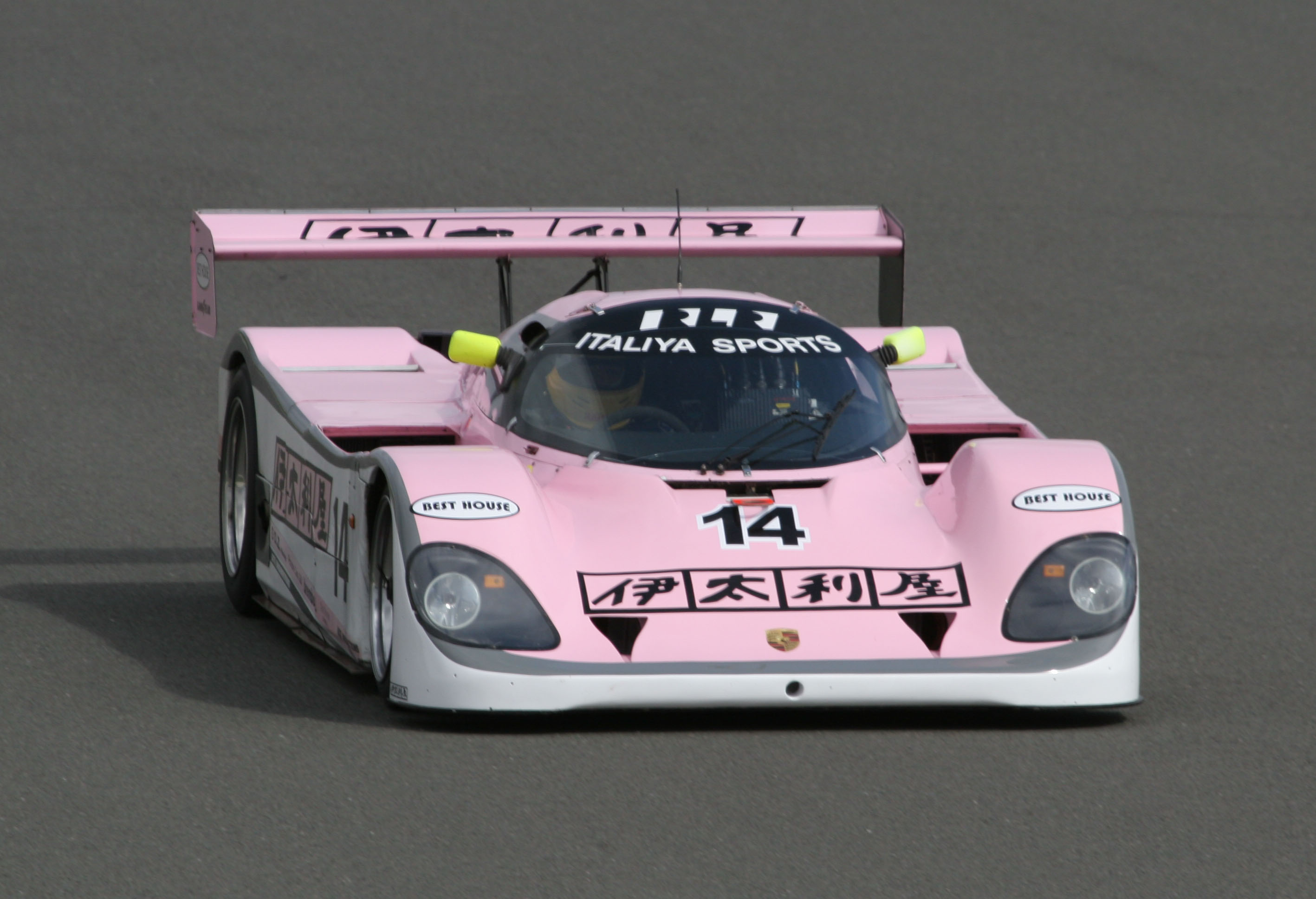 Richard Lloyd Racing Italiya Sports Porsche 962C. It was raced in the 1990 Le Mans 24 hour race by Manuel Reuter (D)/James Weaver (GB)/J.J. Lehto (SF). DNF due to pit fire. Grid: 13th (3:38.720)